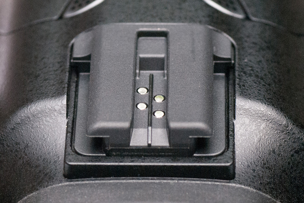 iISO hot shoe on A77